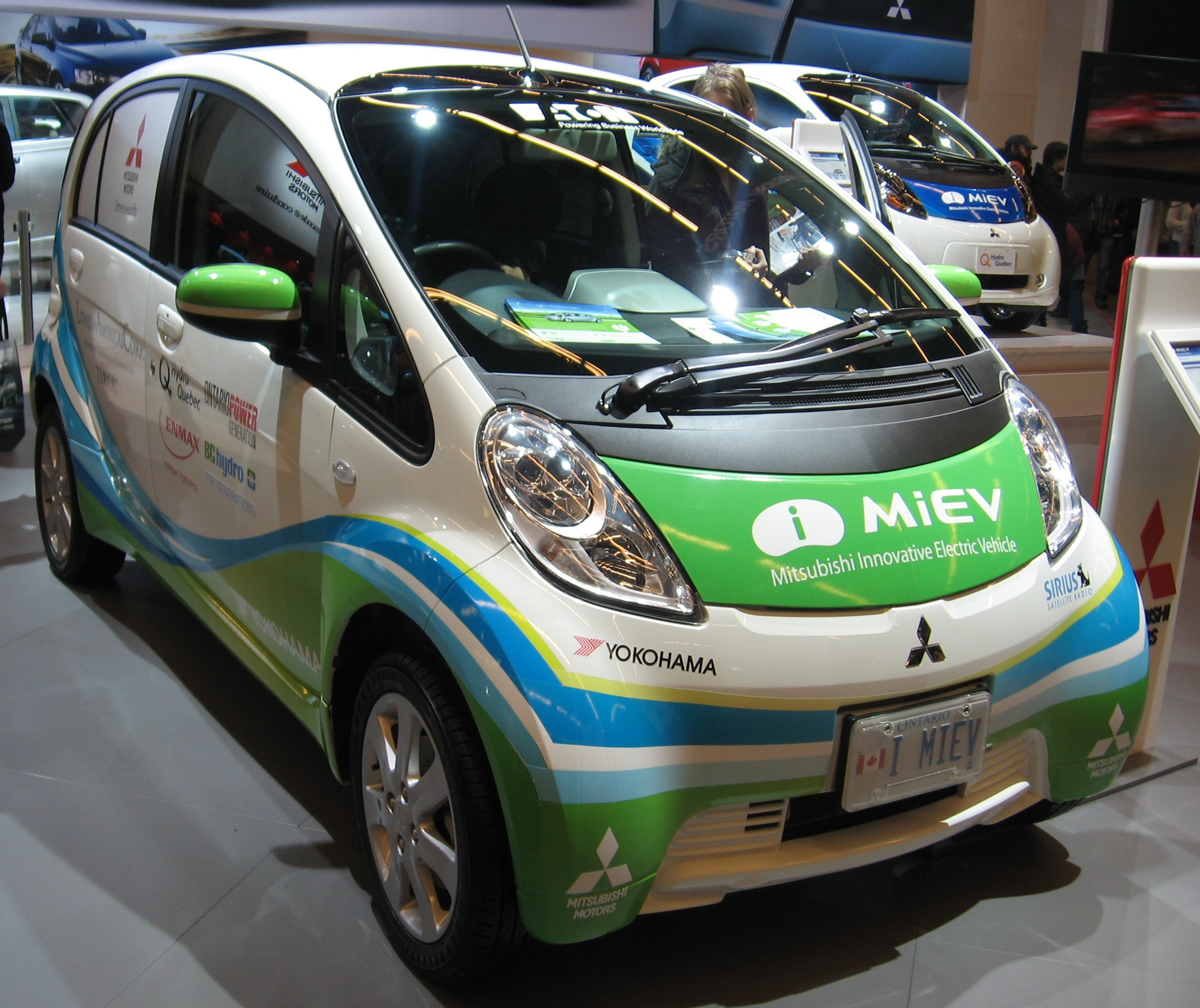 Mitsubishi i MiEV photographed in Montreal, Quebec, Canada at the 2011 Montreal International Auto Show.